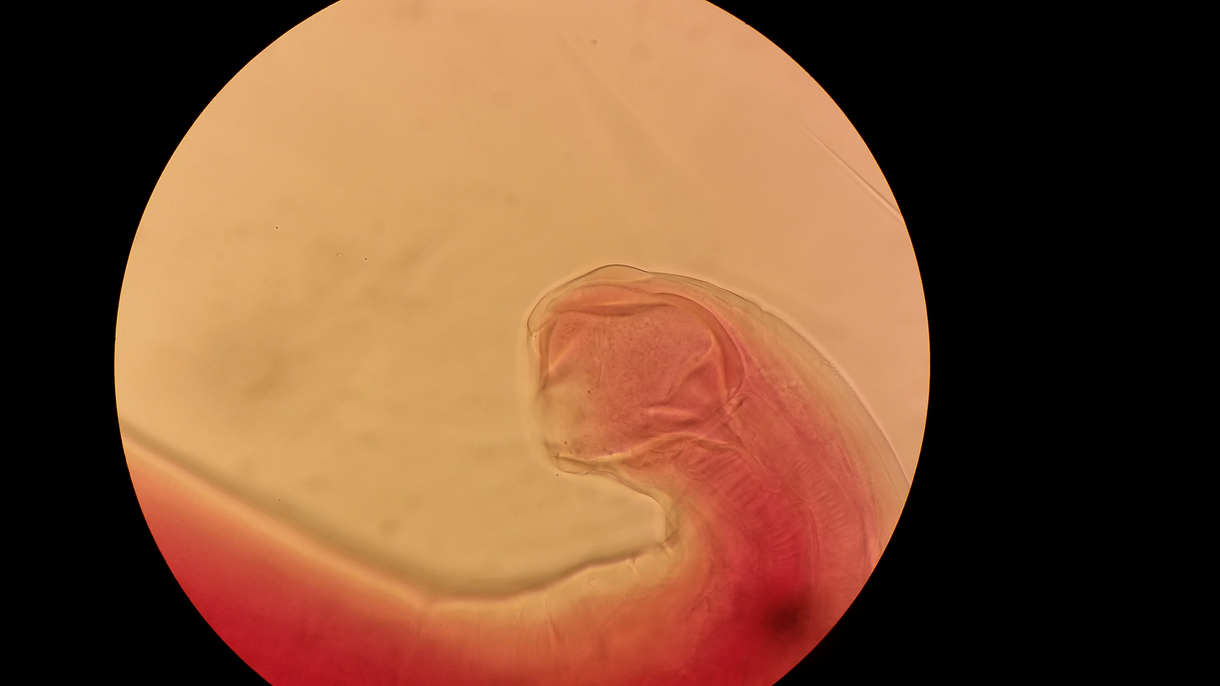 head of necator amricanus